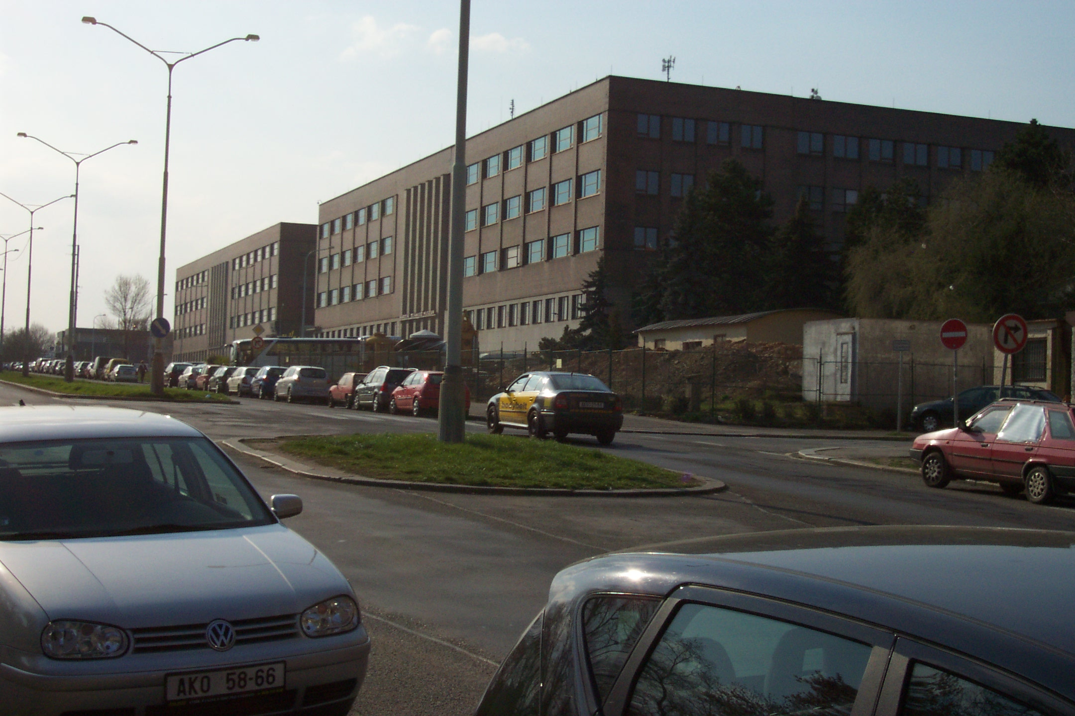 Technical and agricultural museum in Prague